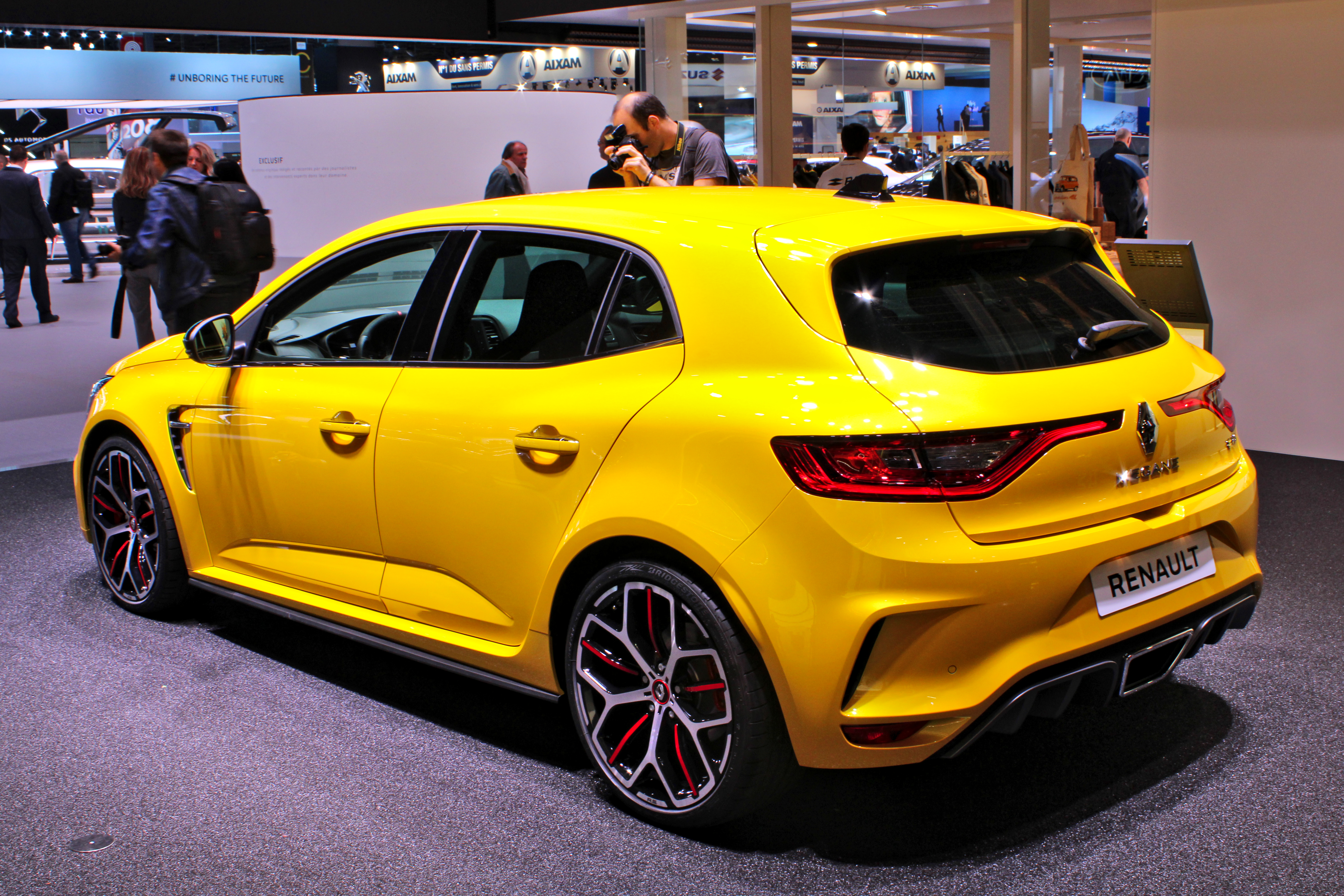 Renault Megane RS Trophy at Paris Motor Show 2018